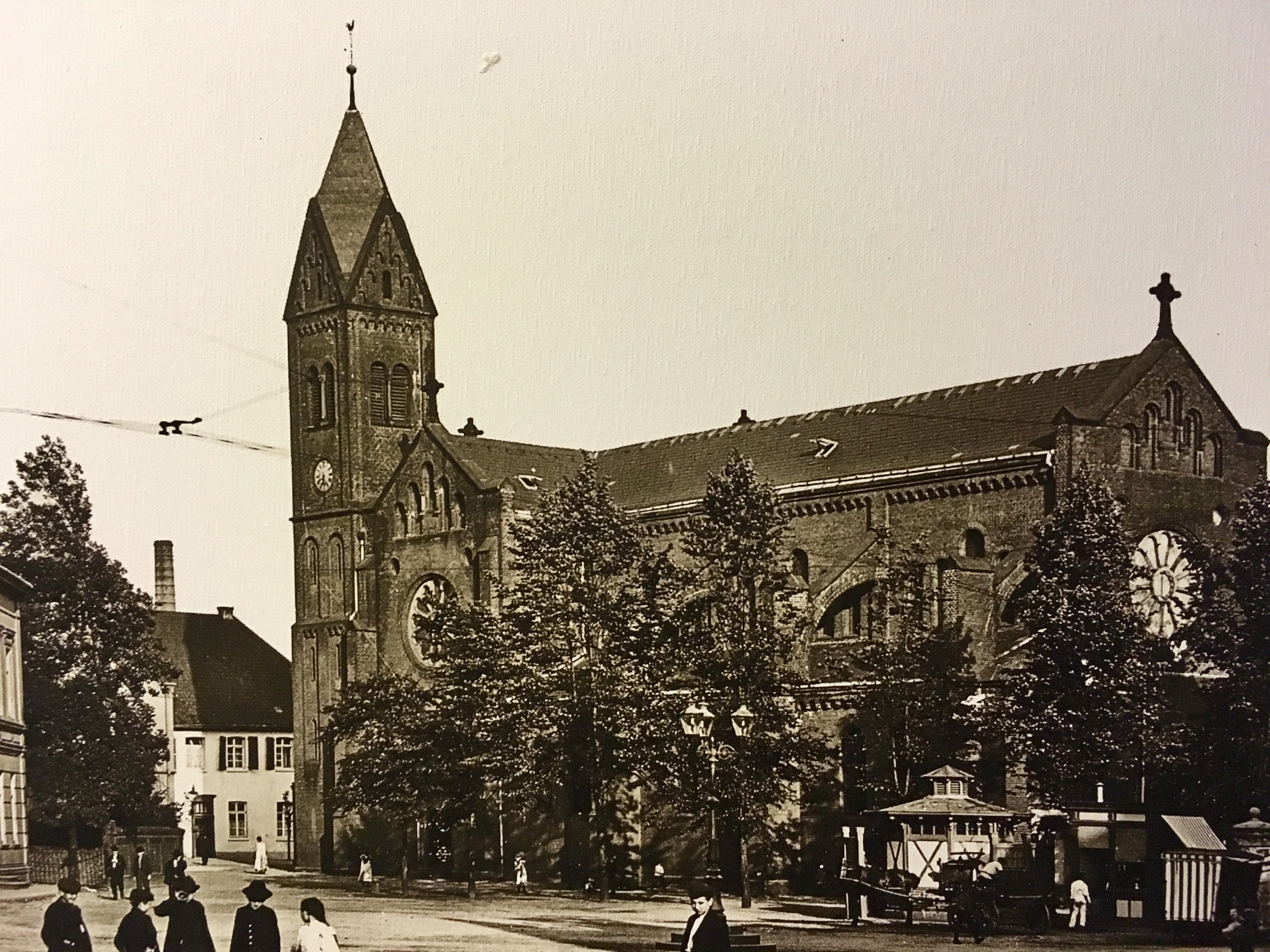 St. Clemens Church of 1872 destroyed during WW II